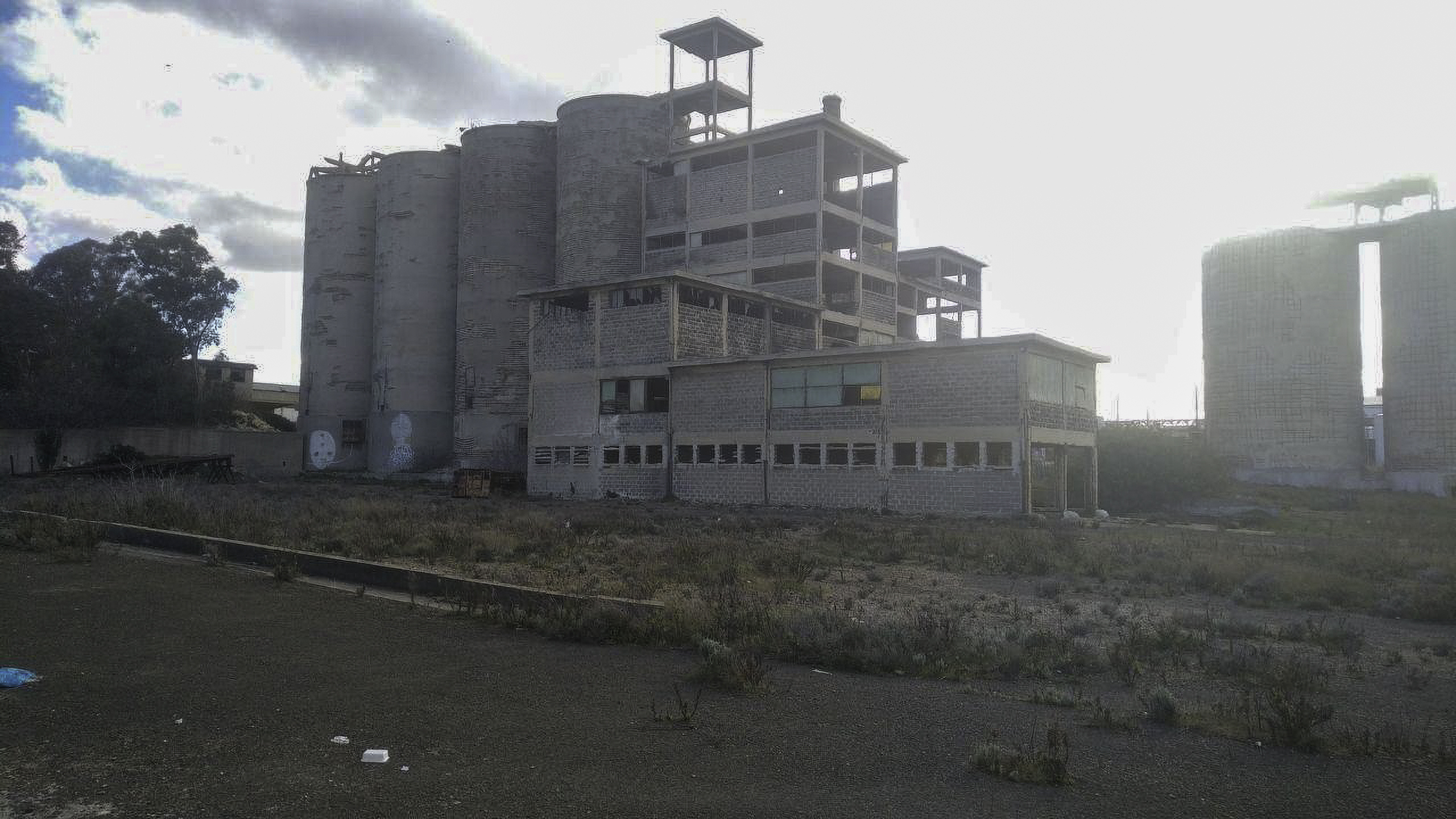 Old factory in Porto Torres